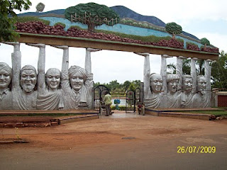 rock hill garden at alamatti